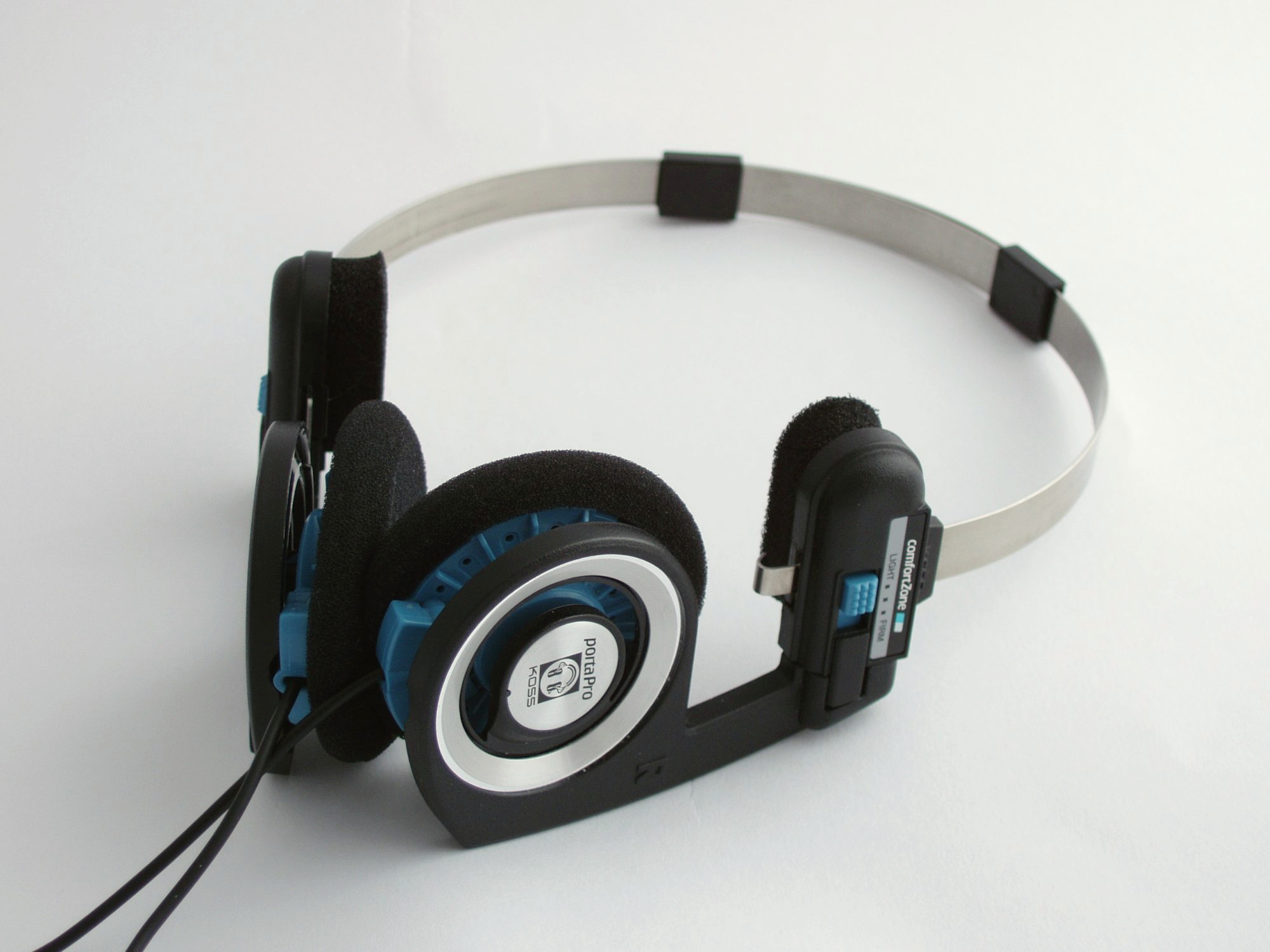 Description: A photograph of Koss Porta Pro headphones. Source: self-made Photographer: Malcolm Tyrrell Camera: Olympus C5000Z (image edited in The GIMP)